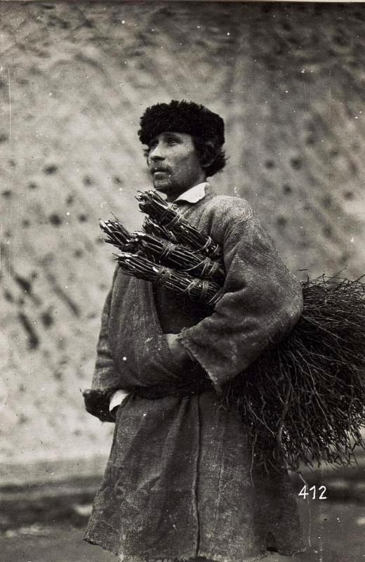 Russischer wolhynischer Bauer in Pawlowicze